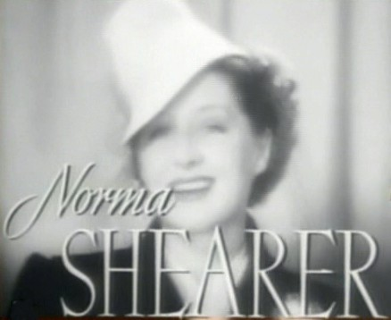 Cropped screenshot of Norma Shearer from the trailer for the film The Women.